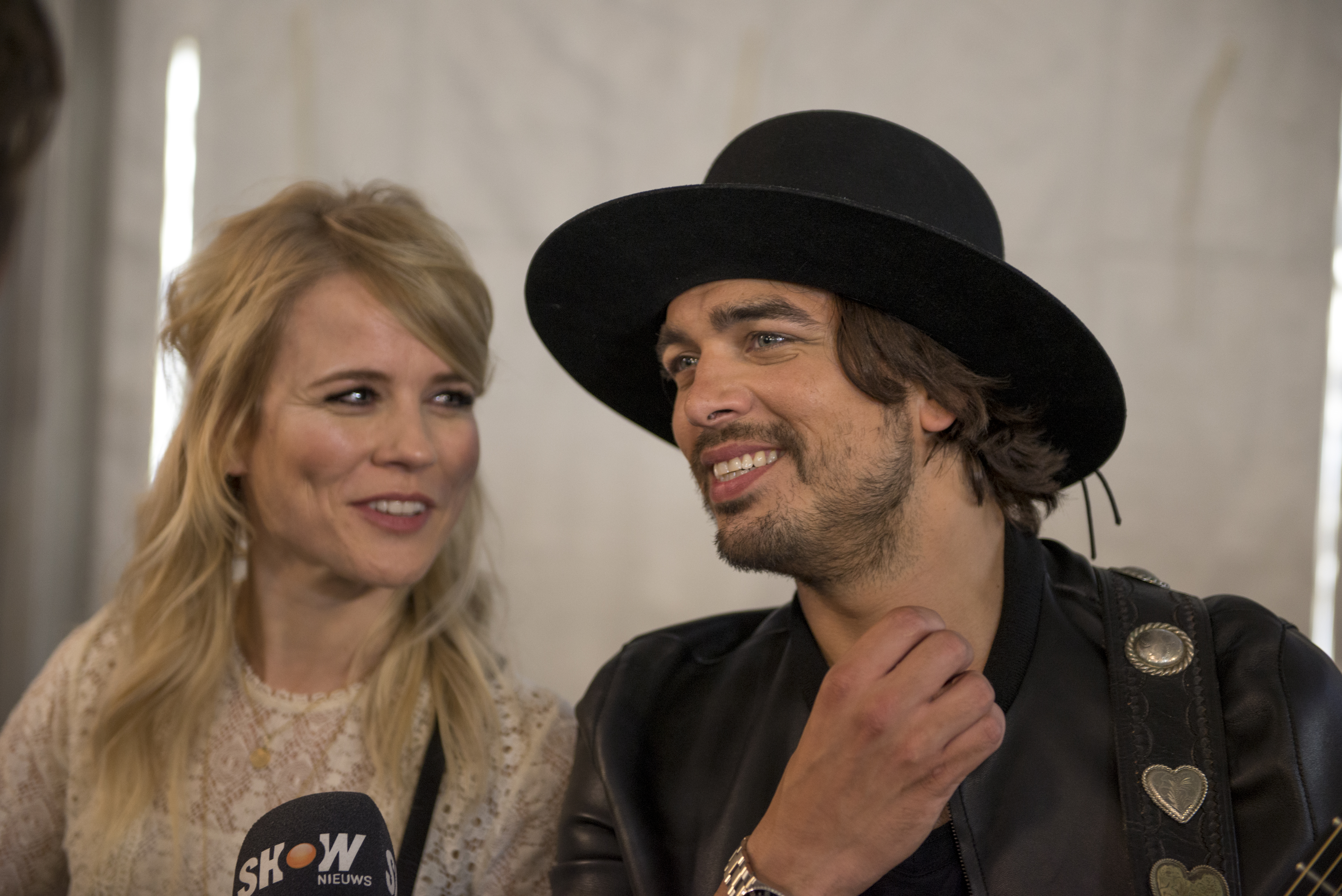 Q15229258 at a Meet & Greet during the Q5354210 Q1748. (Help translate this text)